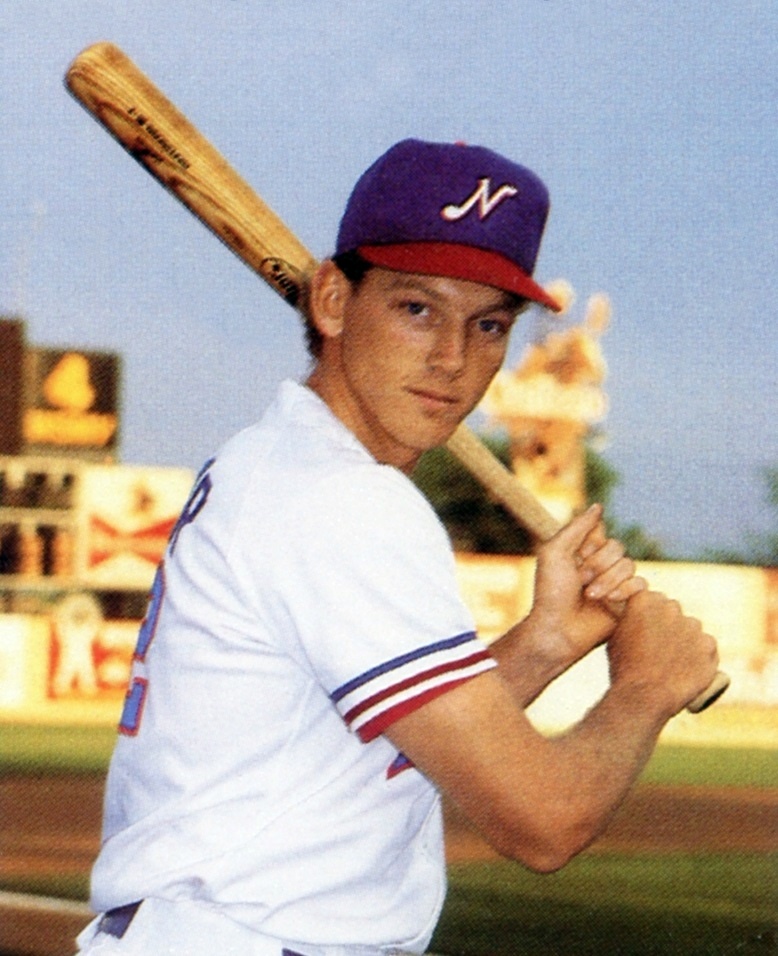 Outfielder Van Snider of the 1988 Nashville Sounds Minor League Baseball team of the American Association